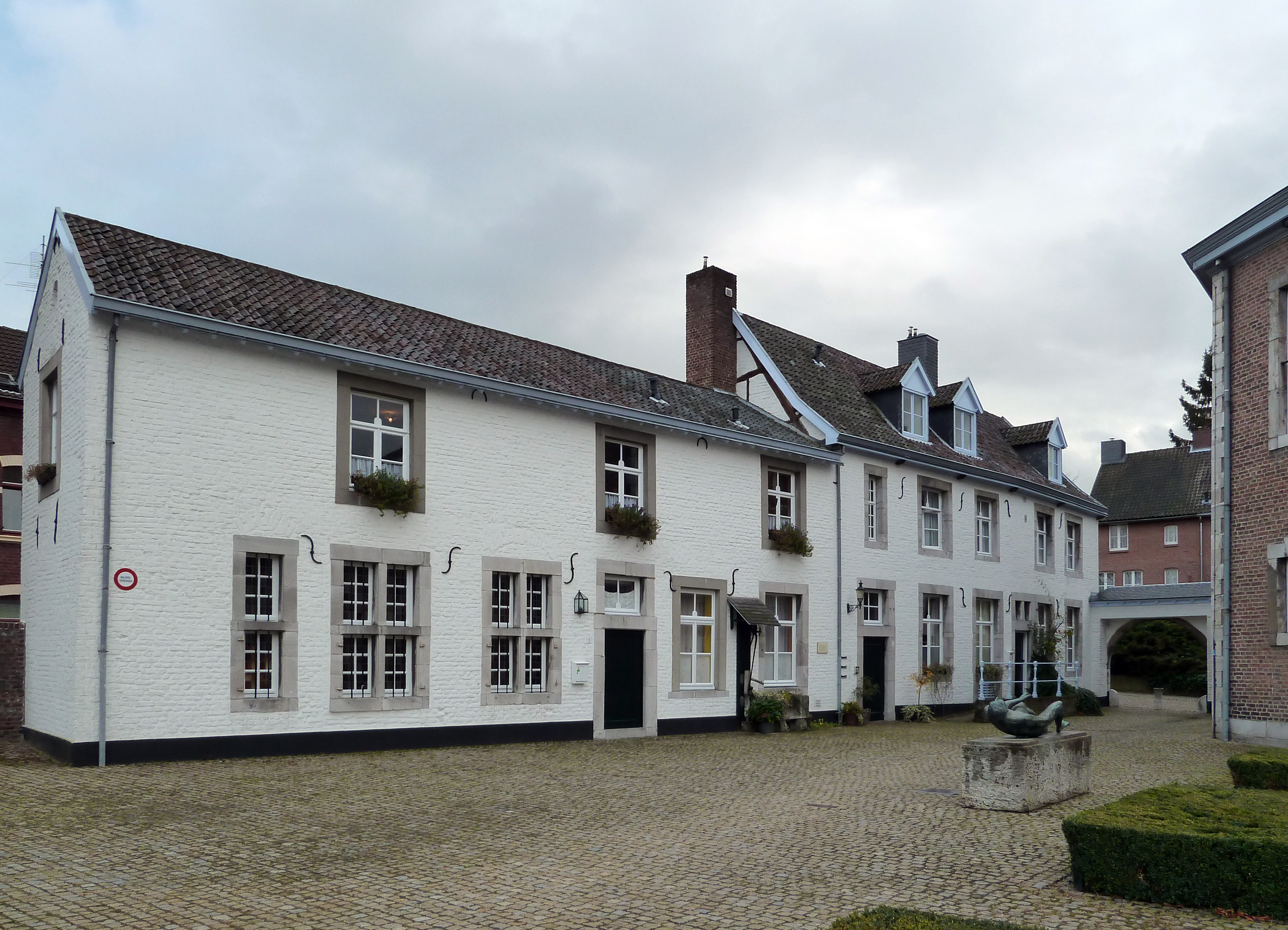 Von Clermontplein 1, Vaals, Limburg, the Netherlands